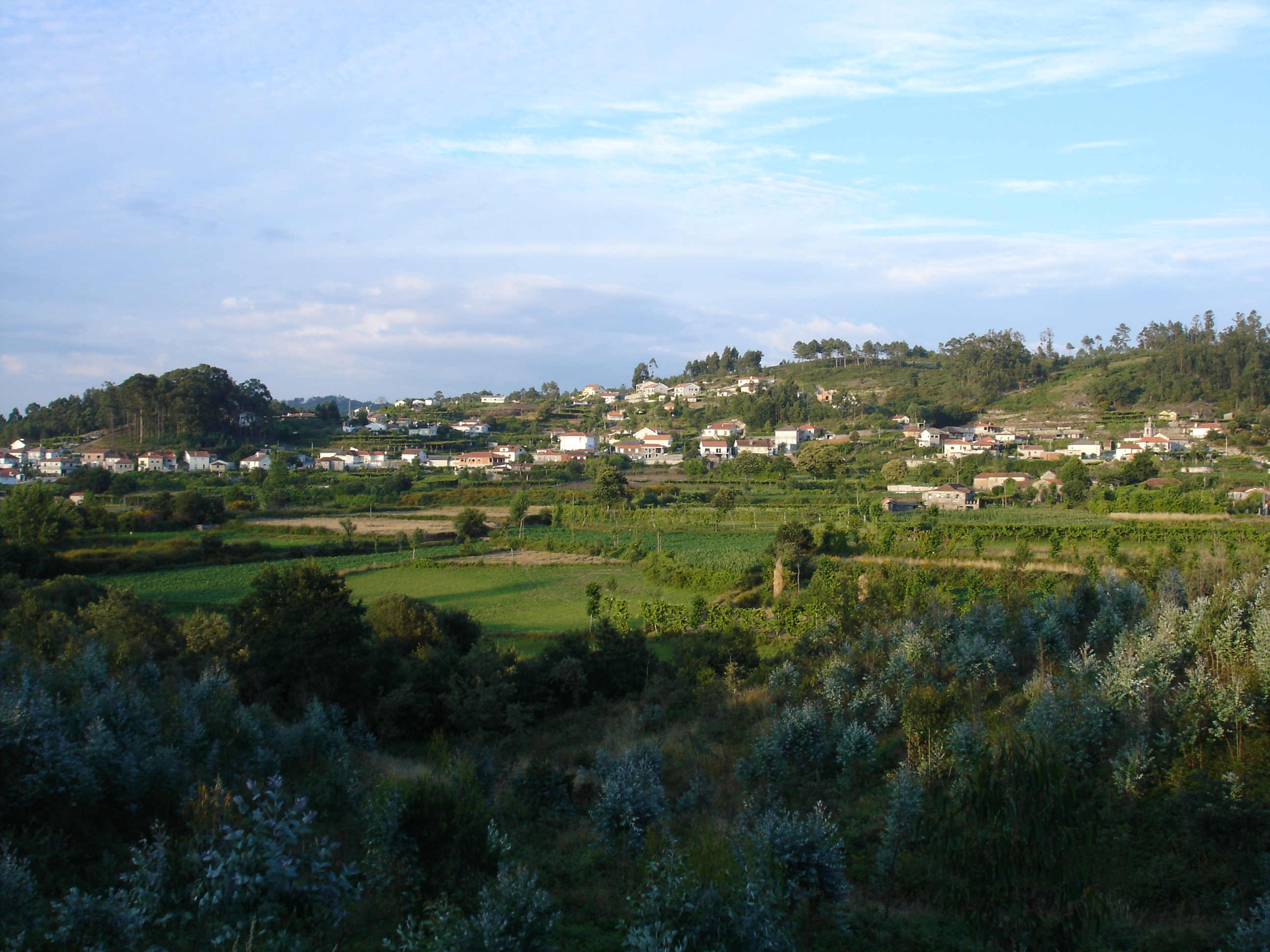 picture of Ardegao Fafe